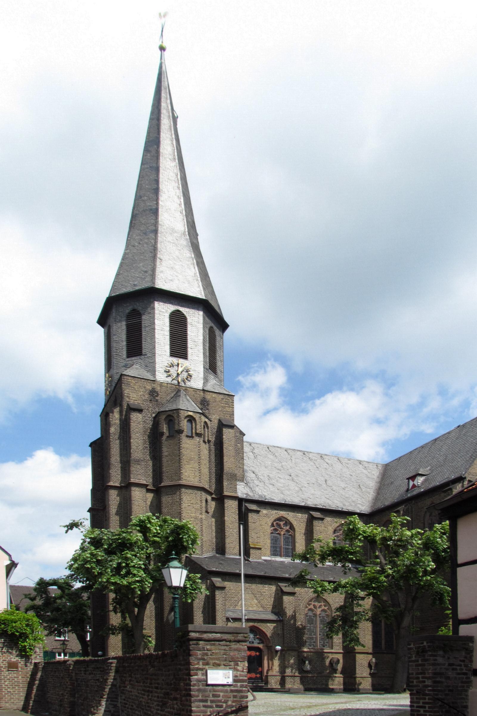 This is a photograph of an architectural monument. .10 (1)